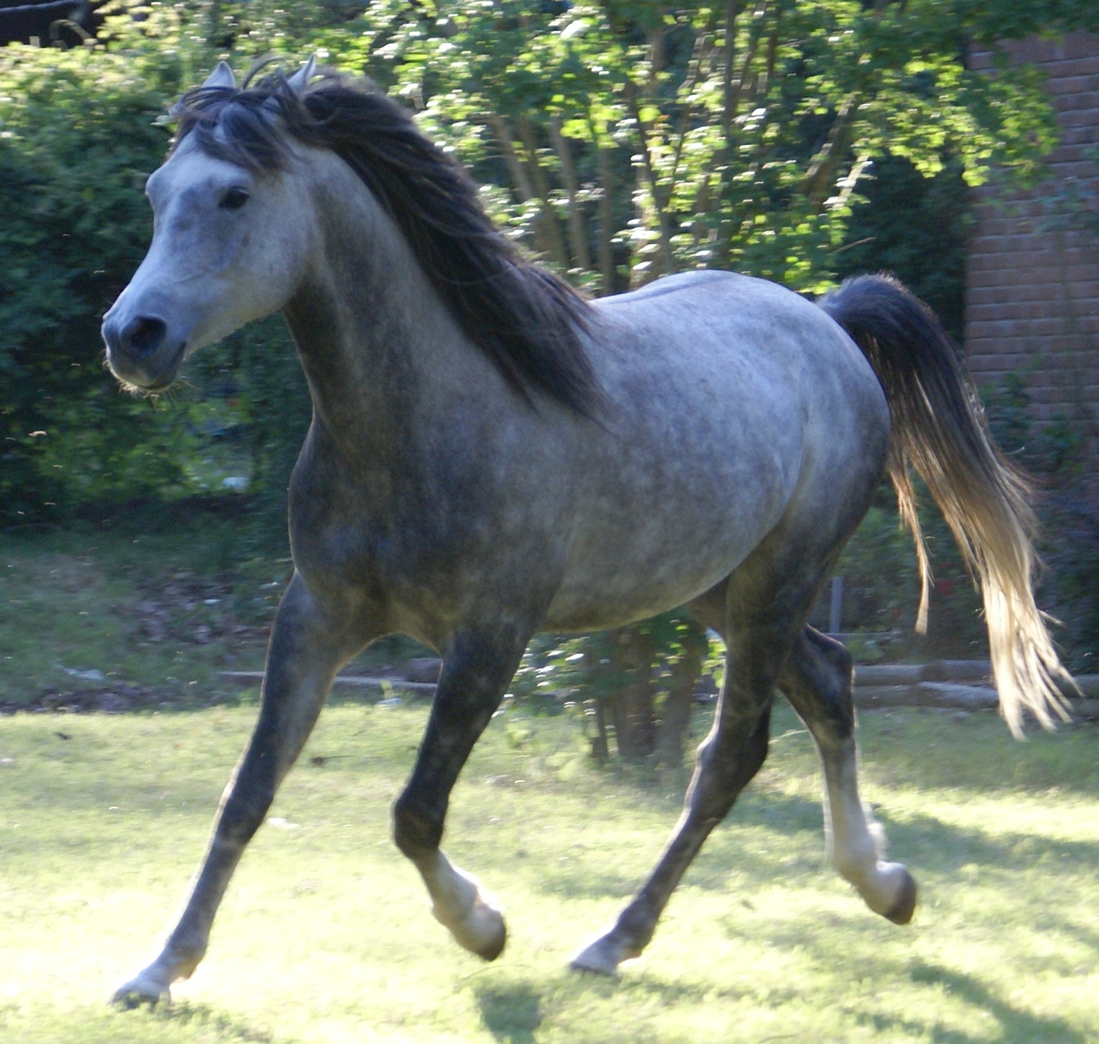 grey arabian stallion. I kind of like how the low light turned Victor's dappled grey into a dappled blue. Here, he is meaning business, hence the ears back.